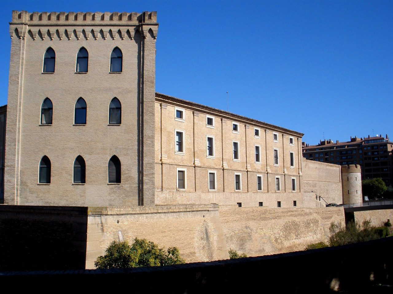 La Aljafería, Zaragoza (Aragón, España). Aljafería Native namePalacio de la Aljafería (Zaragoza)Parent institutionMudéjar architecture of Aragon LocationZaragoza, (Spain)Coordinates41° 39′ 23.36″ N, 0° 53′ 49.49″ W Established11th century date QS:P,+1050-00-00T00:00:00Z/7Authority control : Q1354033 VIAF: 135877161 OSM: 6793634 UNESCO: 378-008 BIC: RI-51-0001033 GND: 6055703-5 institution QS:P195,Q1354033